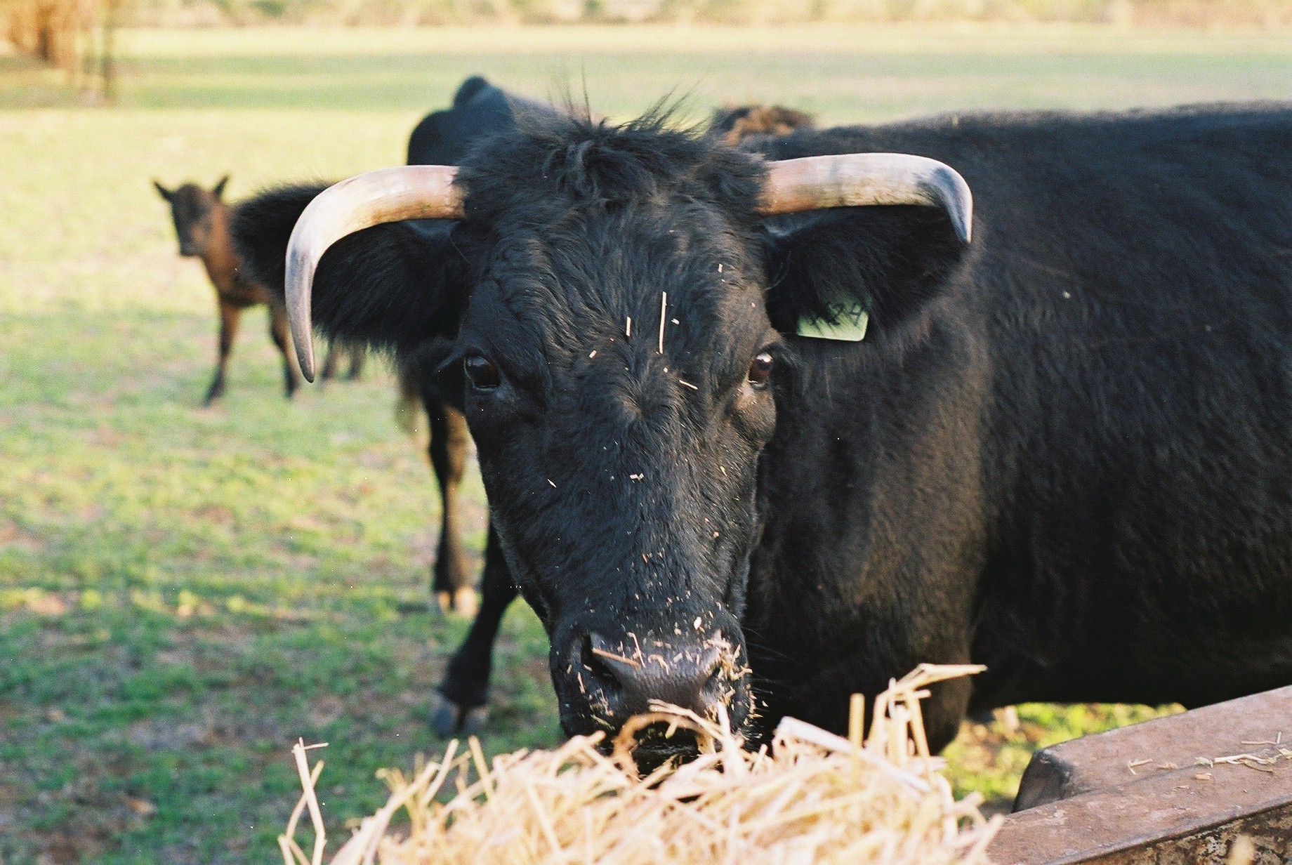 A Dexter, likely a steer or cow.